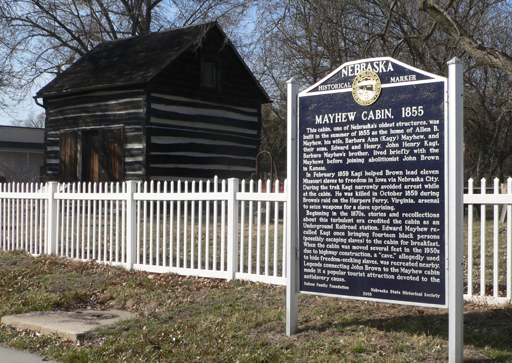 Mayhew Cabin, located at 2012 4th Corso in Nebraska City, Nebraska; seen from the southeast, with Nebraska historical marker in right foreground.